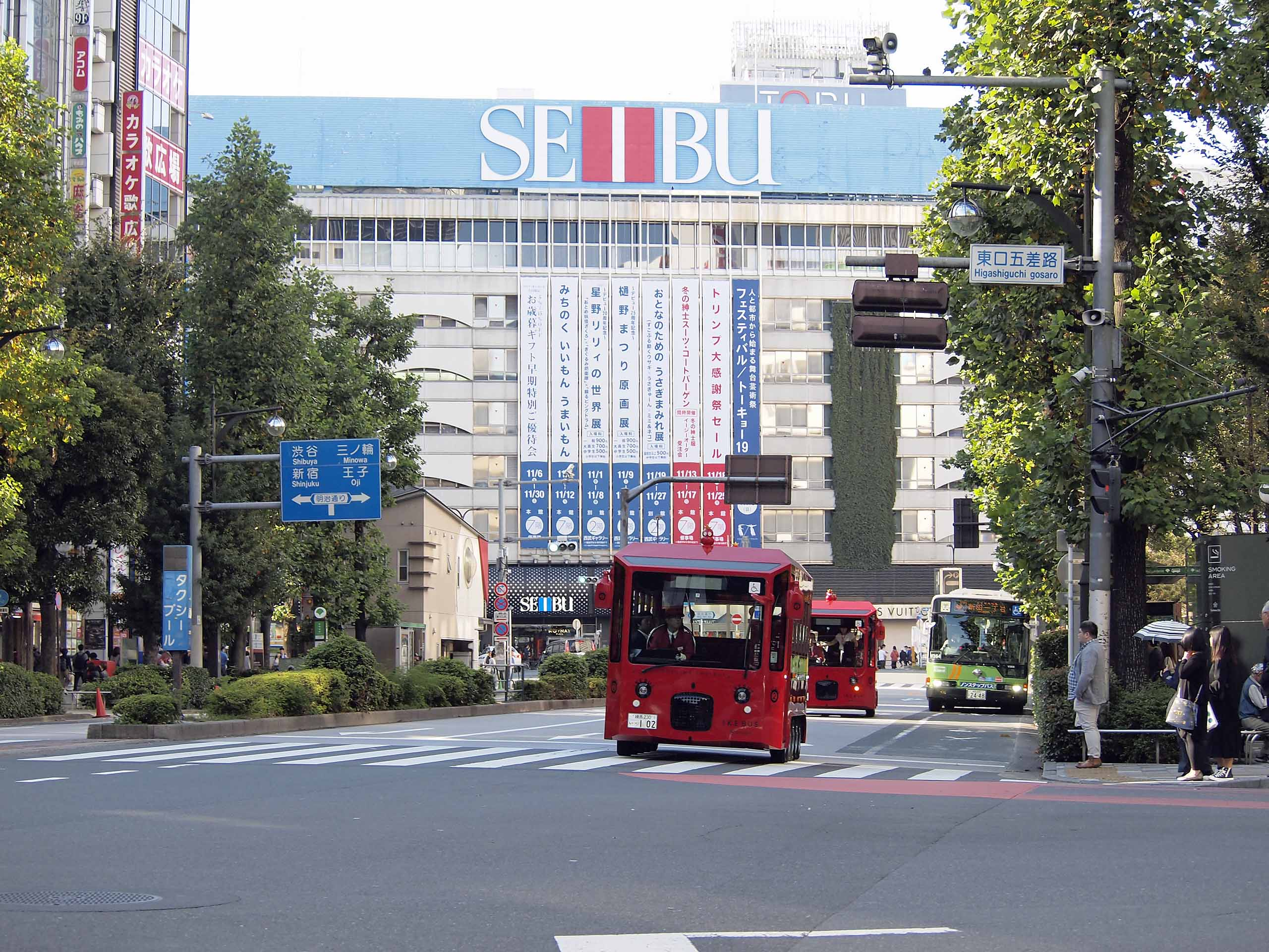 IKEBUS on Green O-dori Street, Ikebukuro. License plate: TKN230 I0102